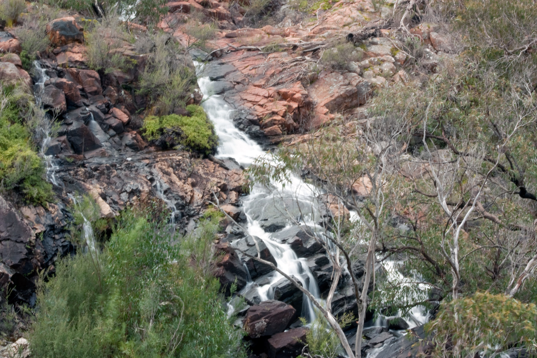 Broken Falls are situated on the McKenzie River in the Grampians, Victoria, just above McKenzie Falls. They can be viewed from a platform at the end of a short spur from the main McKenzie Falls walking track.